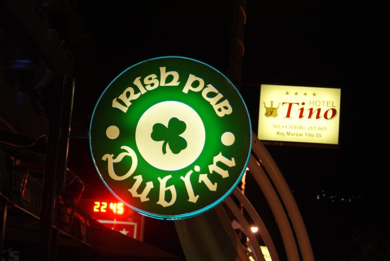 Irish pub in Ohrid, Macedonia